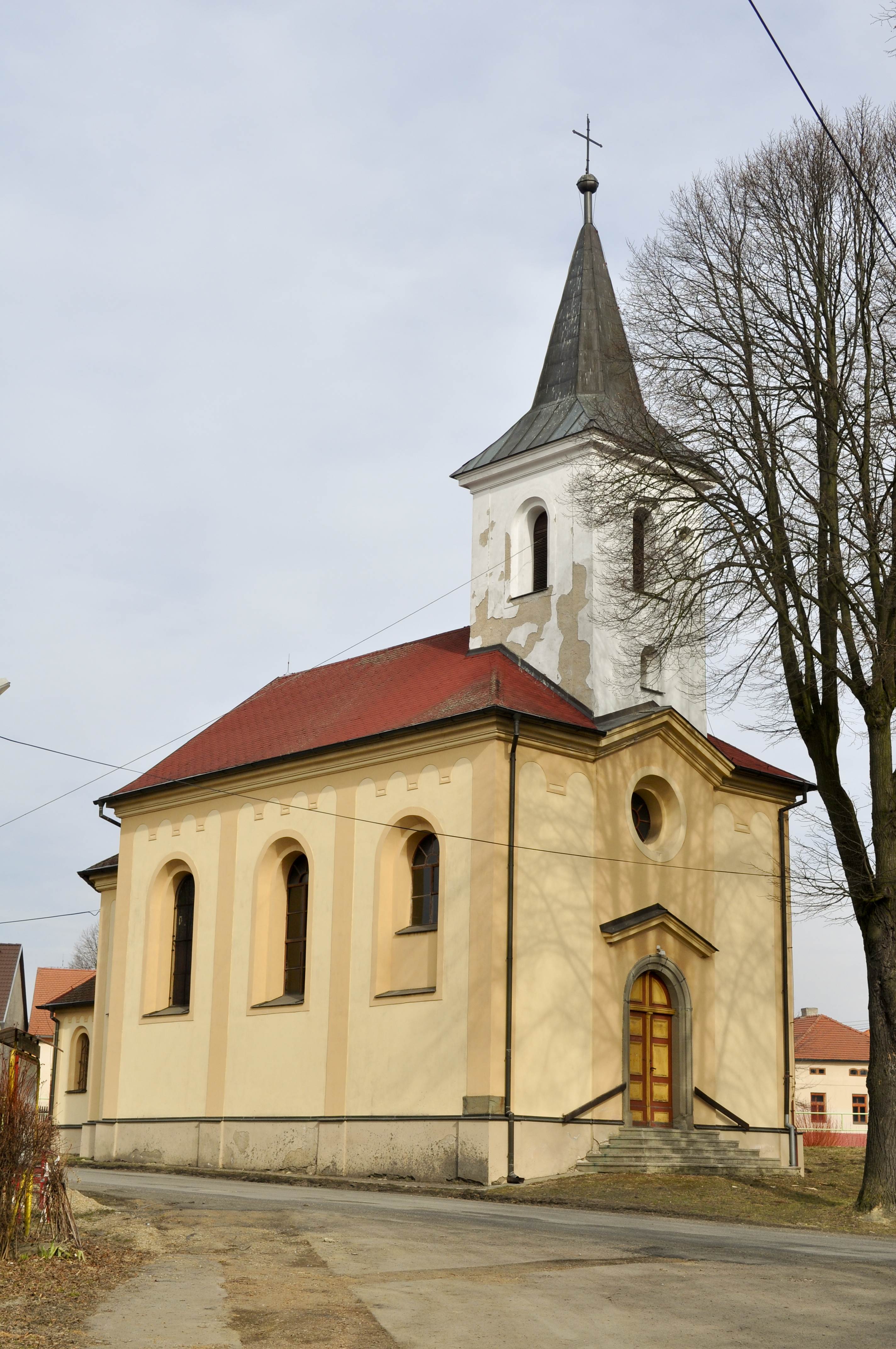 St. Venceslav´s Church